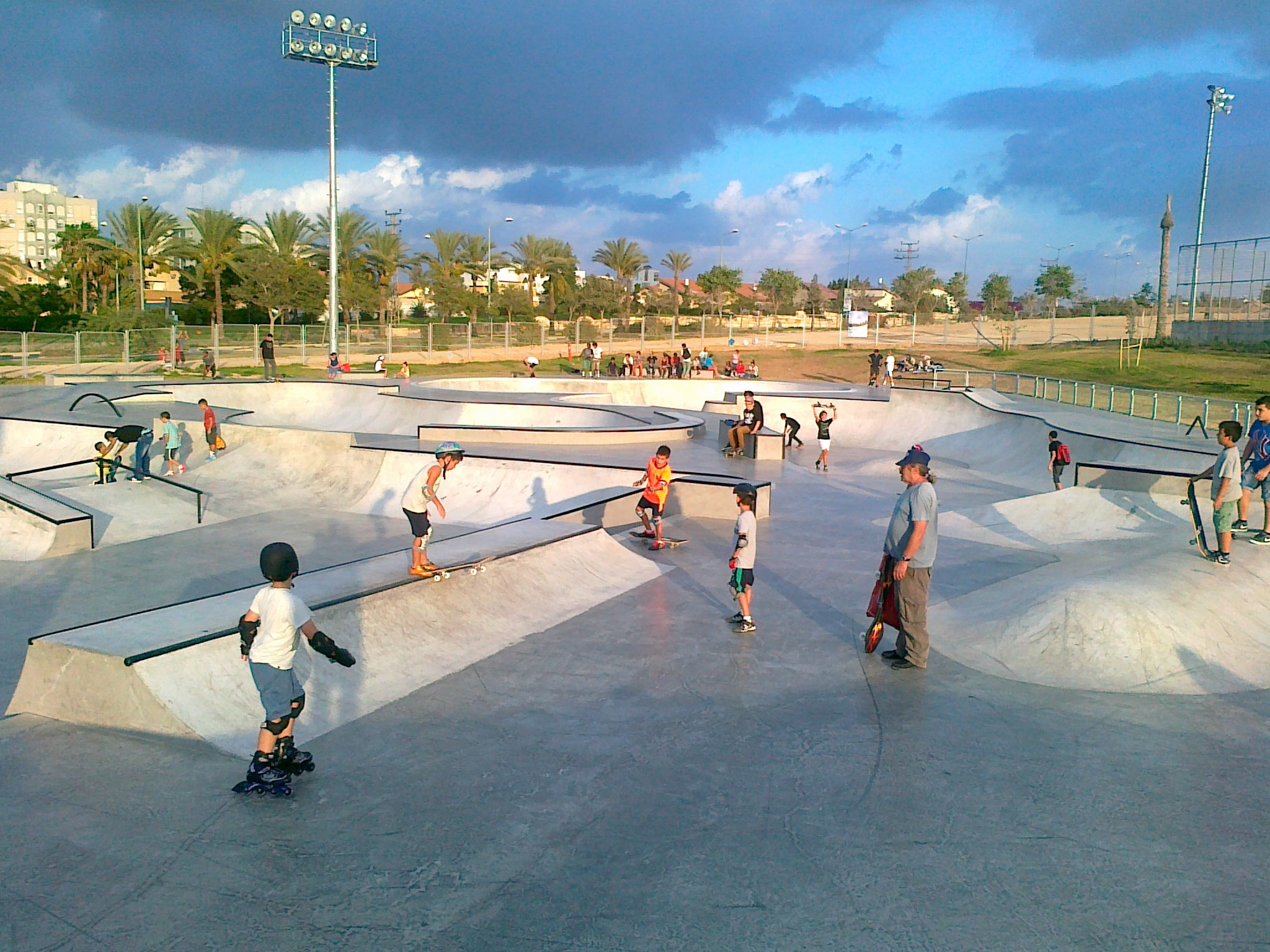 BSSP-Beer Sheva SkatePark, 2013